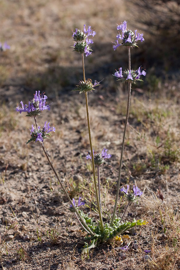 Thistle Sage